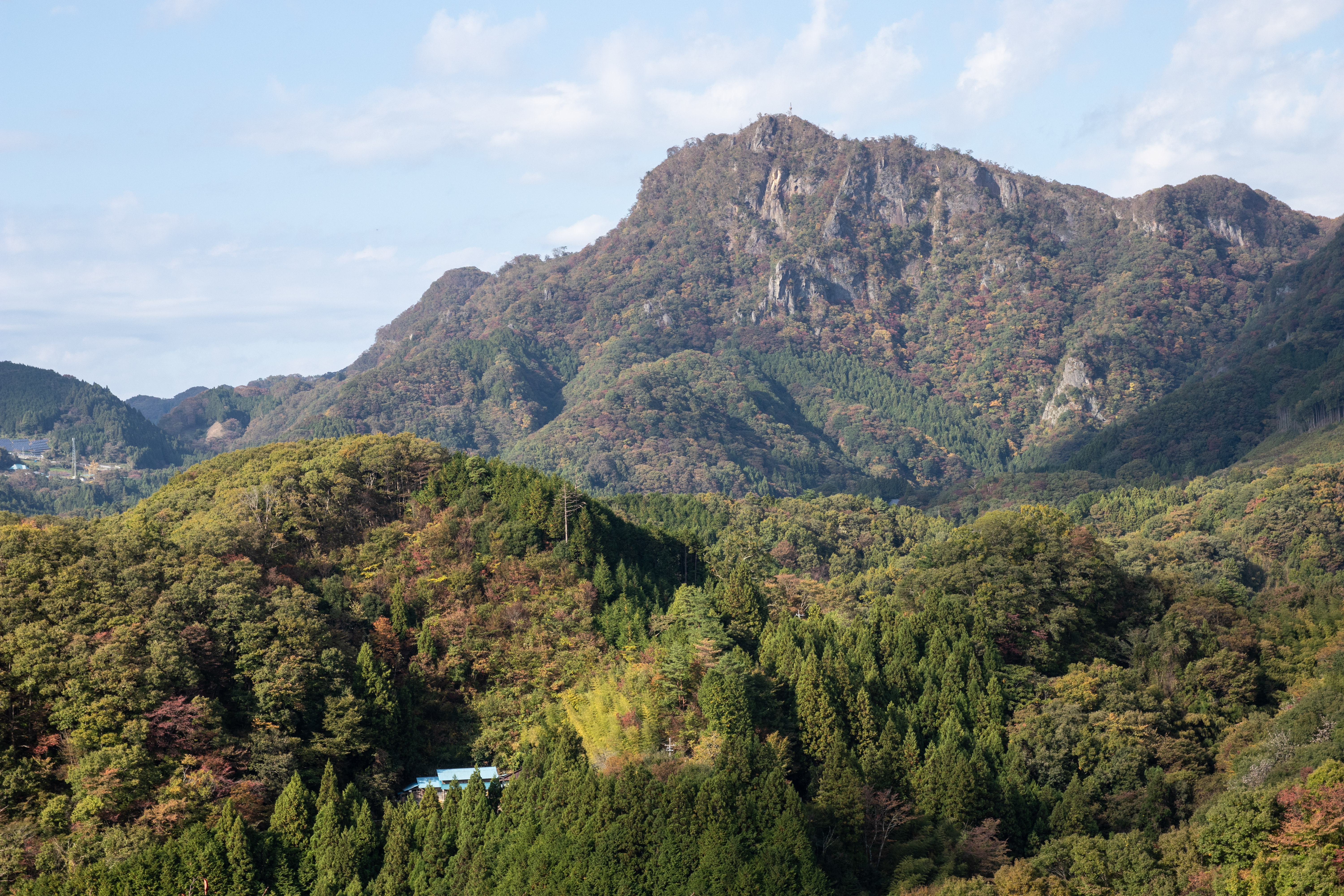 Mount Okukuji-Nantai(Okukuji-nantai-san おくくじなんたいさん 奥久慈男体山), Kuji Mountains, Ibaraki Pref., JapanCanon EOS 80D + Sigma 17-70mm F2.8-4 DC Macro OS HSM